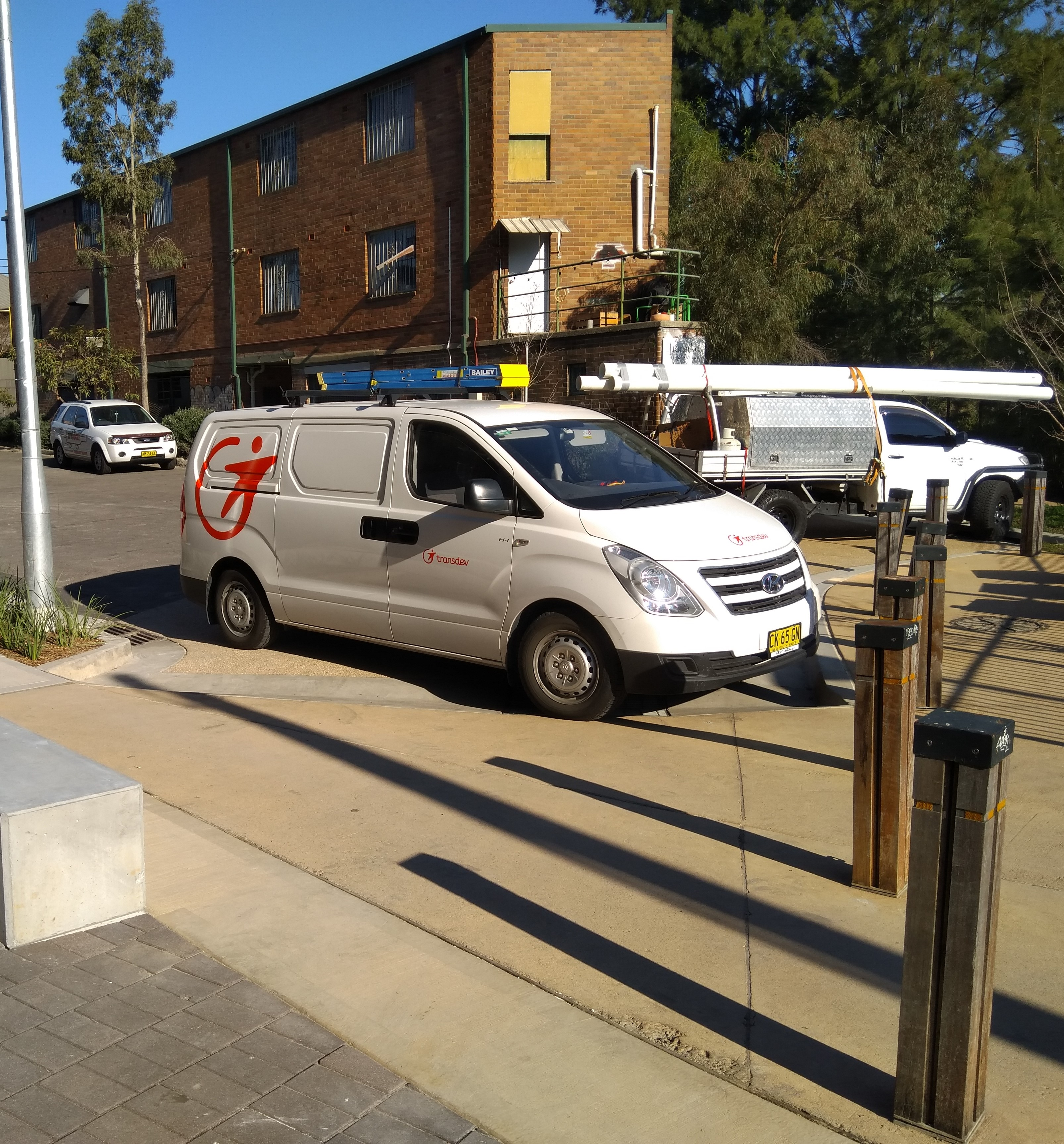 A Transdev maintenance vehicle outside Arlington light rail stop. The company operates the Inner West Light Rail.